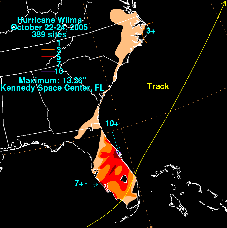 Storm total rainfall map of Hurricane Wilma during October 2005.